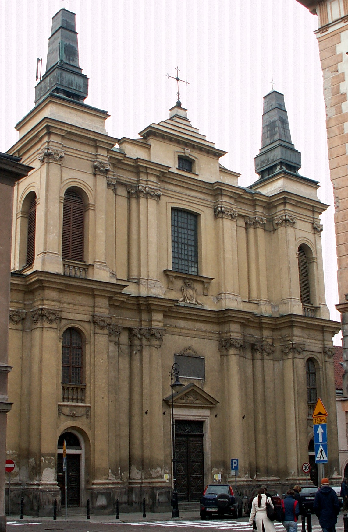 Warsaw, church of St. Francis of Assisi